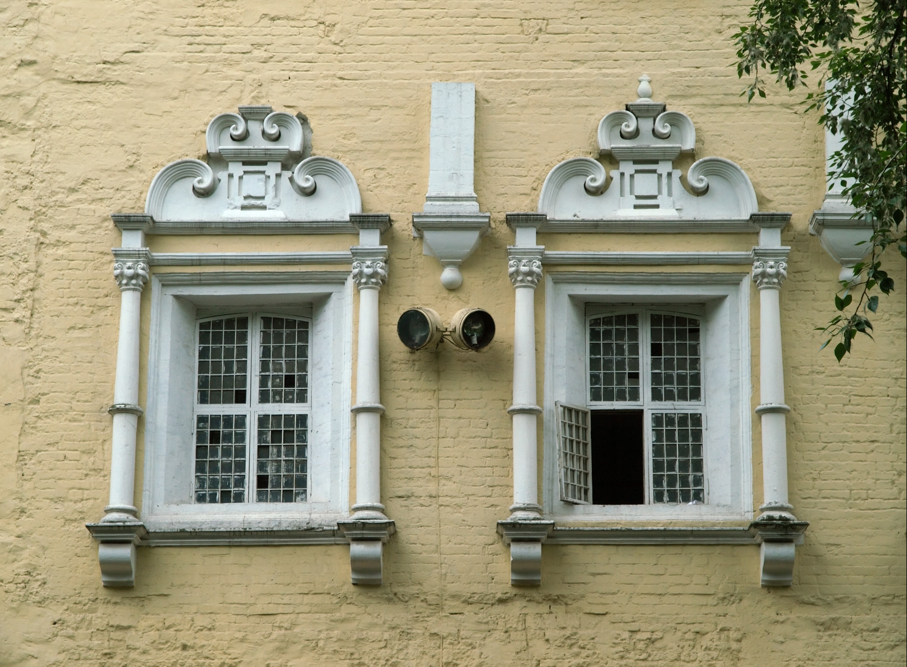 Baroque windows of Naryshkin-Raguzinsky house in Maroseyka Street, Moscow. Building core dates back to 17th century.